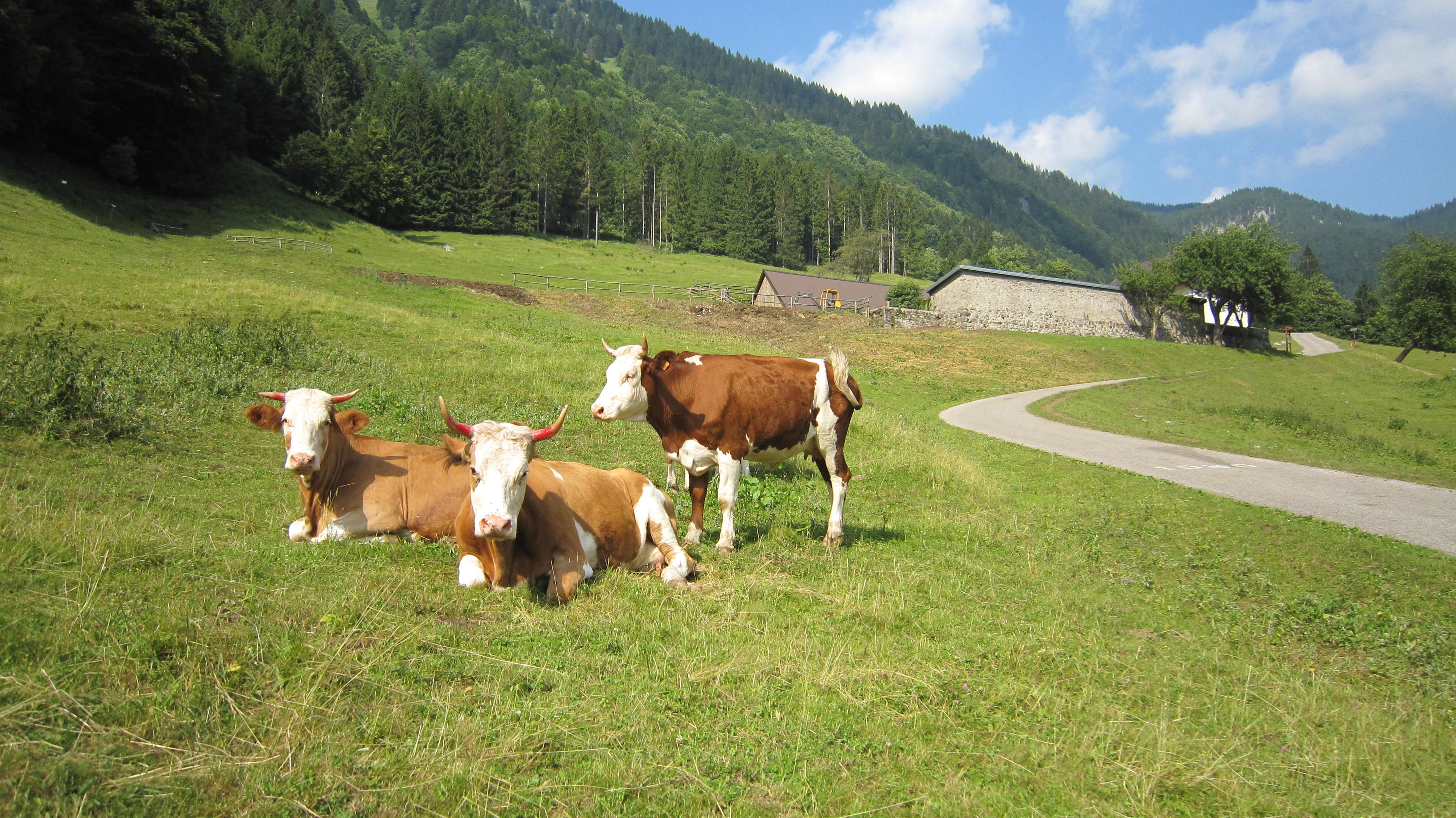 paularo mucche ramaz